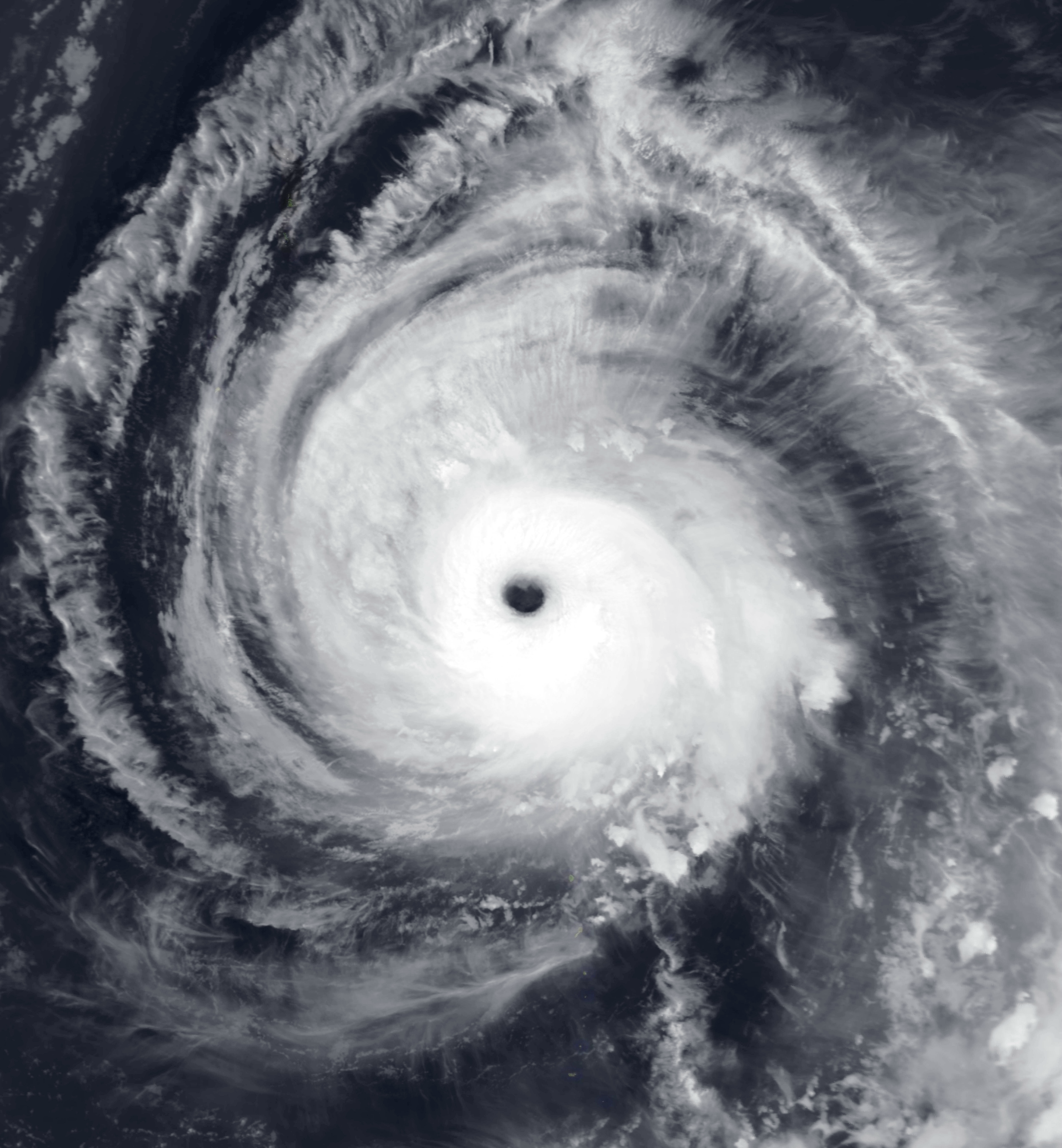 Typhoon Yagi near peak intensity on September 21